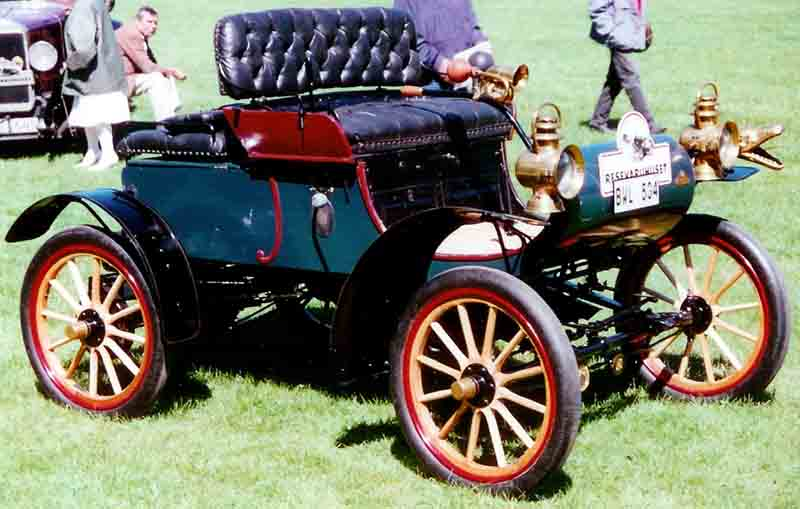 Oldsmobile Model 6C Curved Dash Runabout 1904